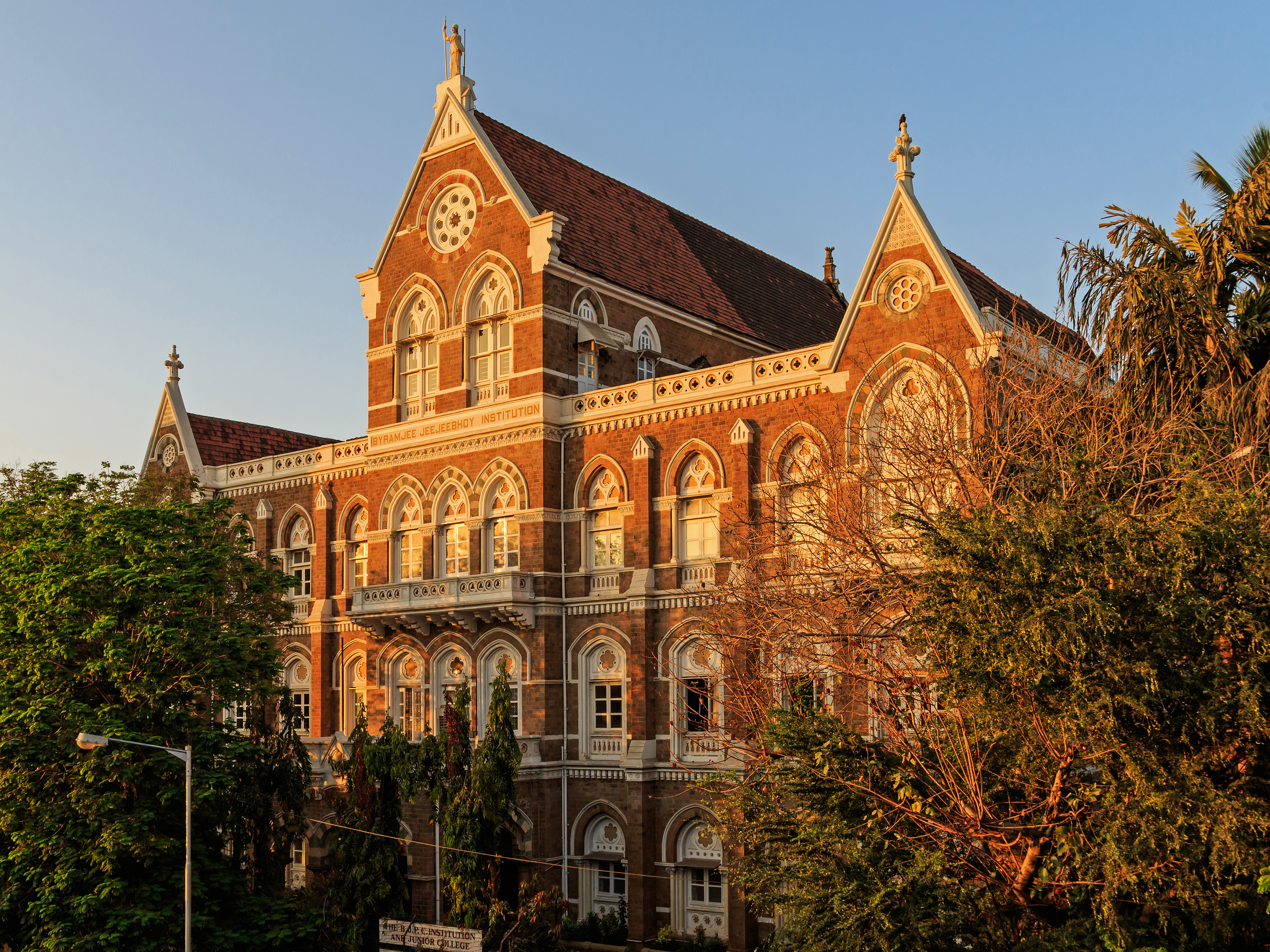 The BJPC Institute building in Mumbai, India